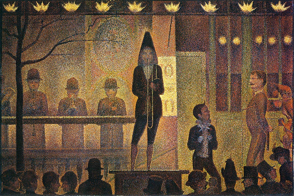 "La Parade de Cirque", painted 1887–88. Size: 100 by 150 cm. Metropolitan Museum of Art, USA.